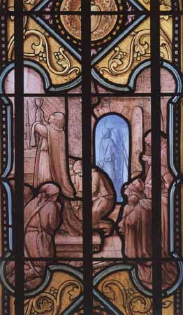 Saint-Etienne-du-Bois "Une messe sous la Terreur dans la maison de Joseph Brault". (Meuret, maître-verrier)